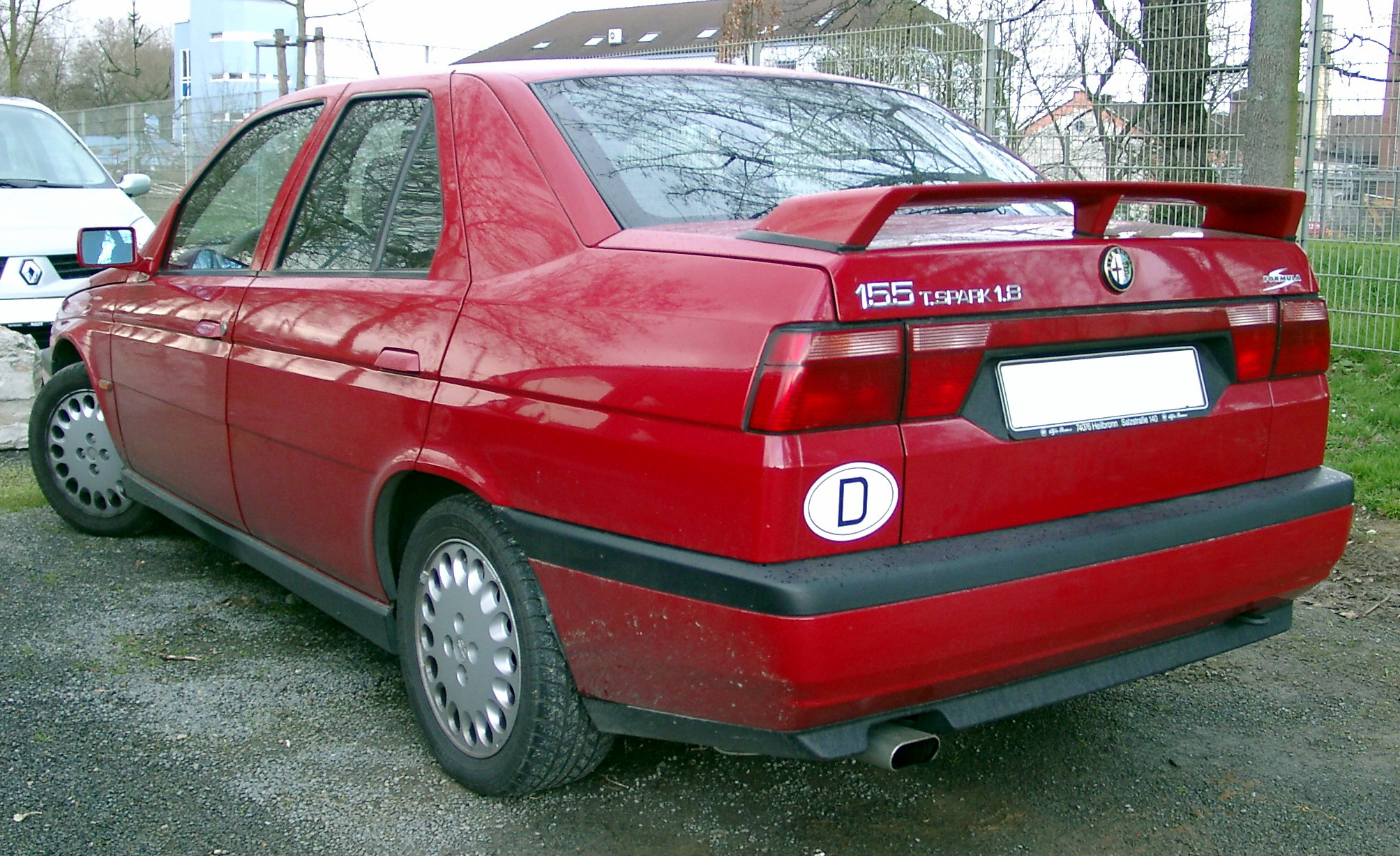 Alfa Romeo 155Dansk: Alfa Romeo 155